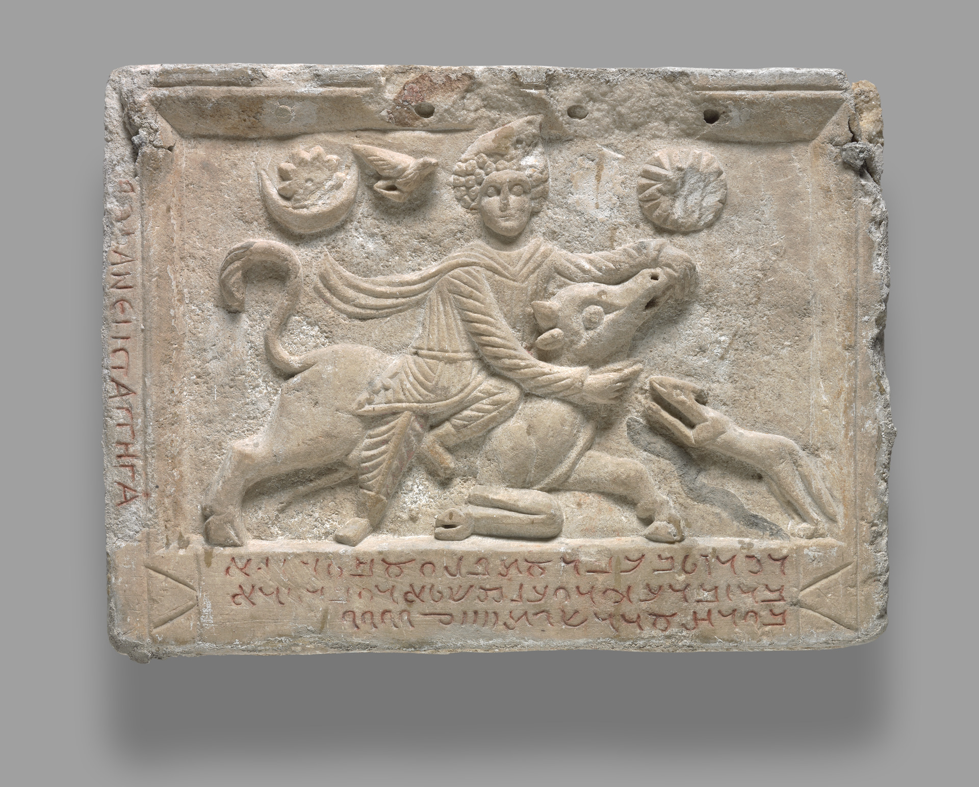 Cult Relief of Mithras Slaying the Bull (Tauroctony), Yale University Art Gallery 1935.97